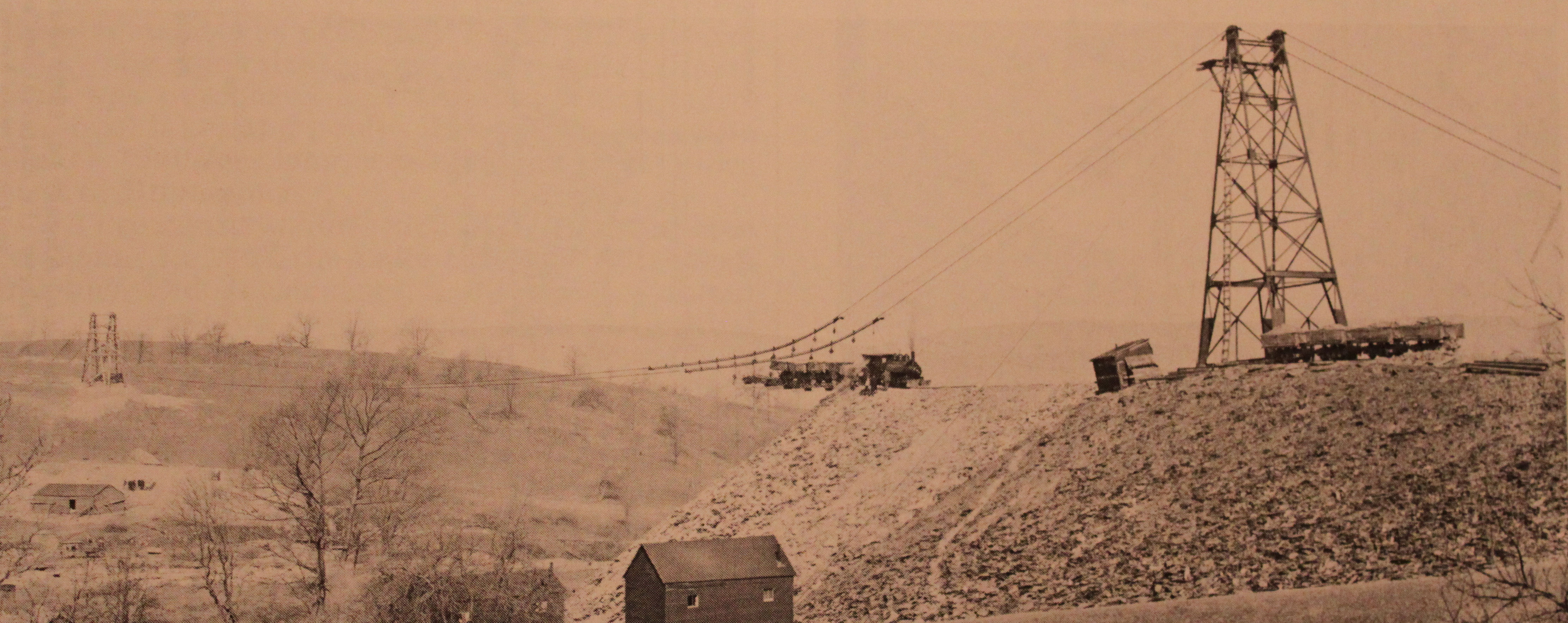 Lackawanna Railroad photo from March 1909. Construction of fill west of Blairstown, NJ on the Lackawanna Cut-Off.WallyFromColumbia (talk) 03:39, 14 August 2011 (UTC)